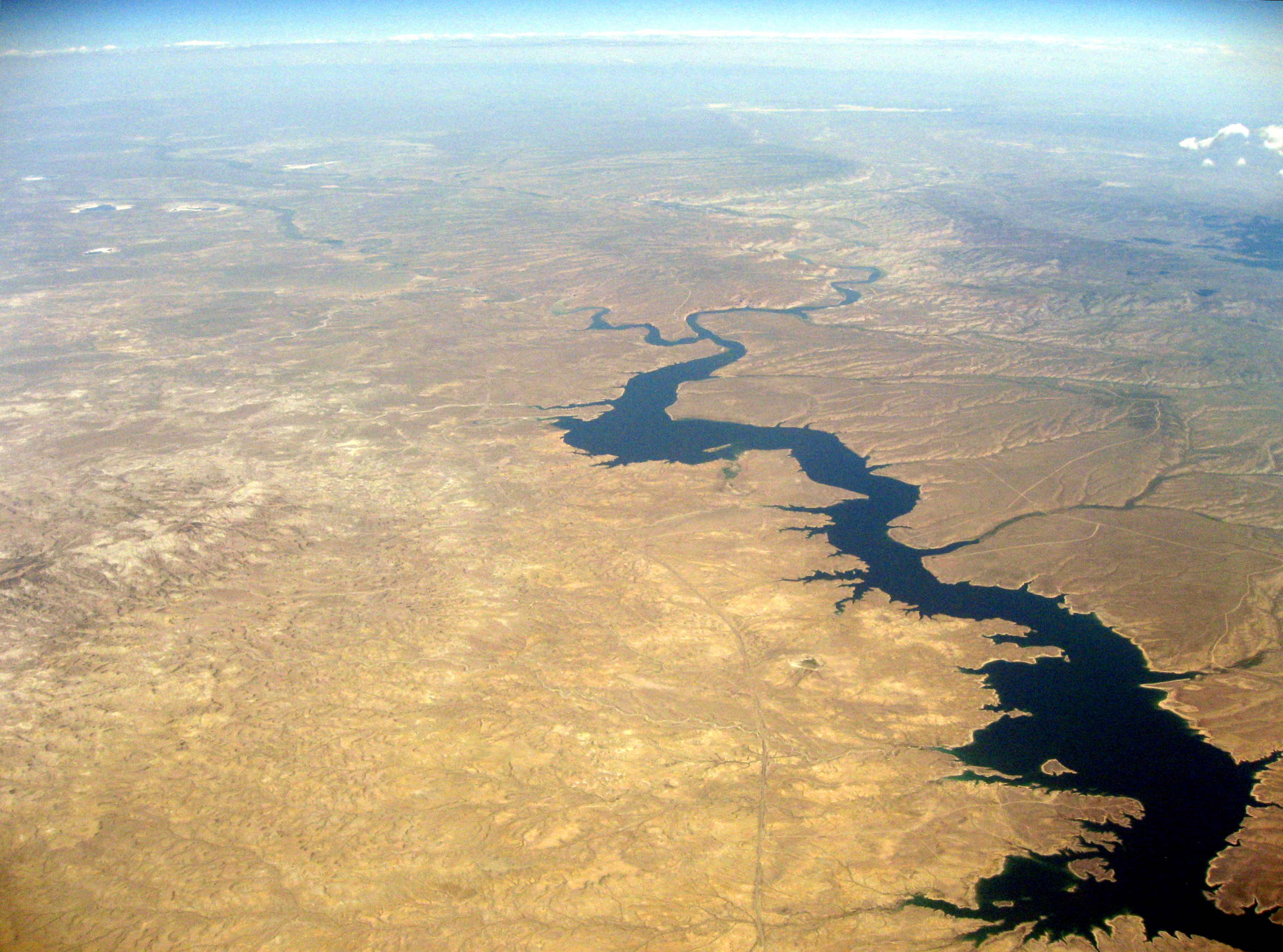 An aerial view looking north-northeast toward Rock Springs, WY of the Flaming Gorge Reservoir and Green River in Sweetwater County. Blacks Fork, a Green River tributary, extends off to the northwest. Wyoming Highway 530 runs up the center of the image along the west side of the reservoir. The northern end of Black Mountain in the Devil's Playground WSA is visible on the left side of the image. The bottom of the image is approximately 3 miles north of the Wyoming-Utah border.